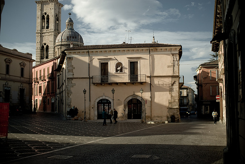 Main street in Sulmona, Italy.